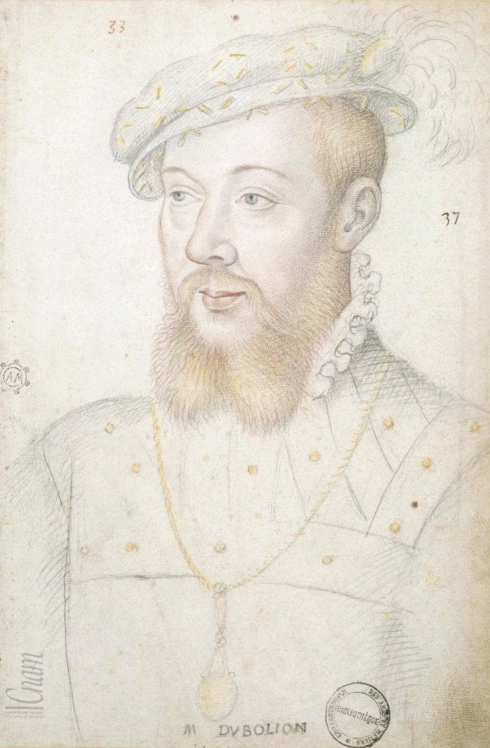 Portrait of Robert IV. de La Marck, Duke of Bouillon